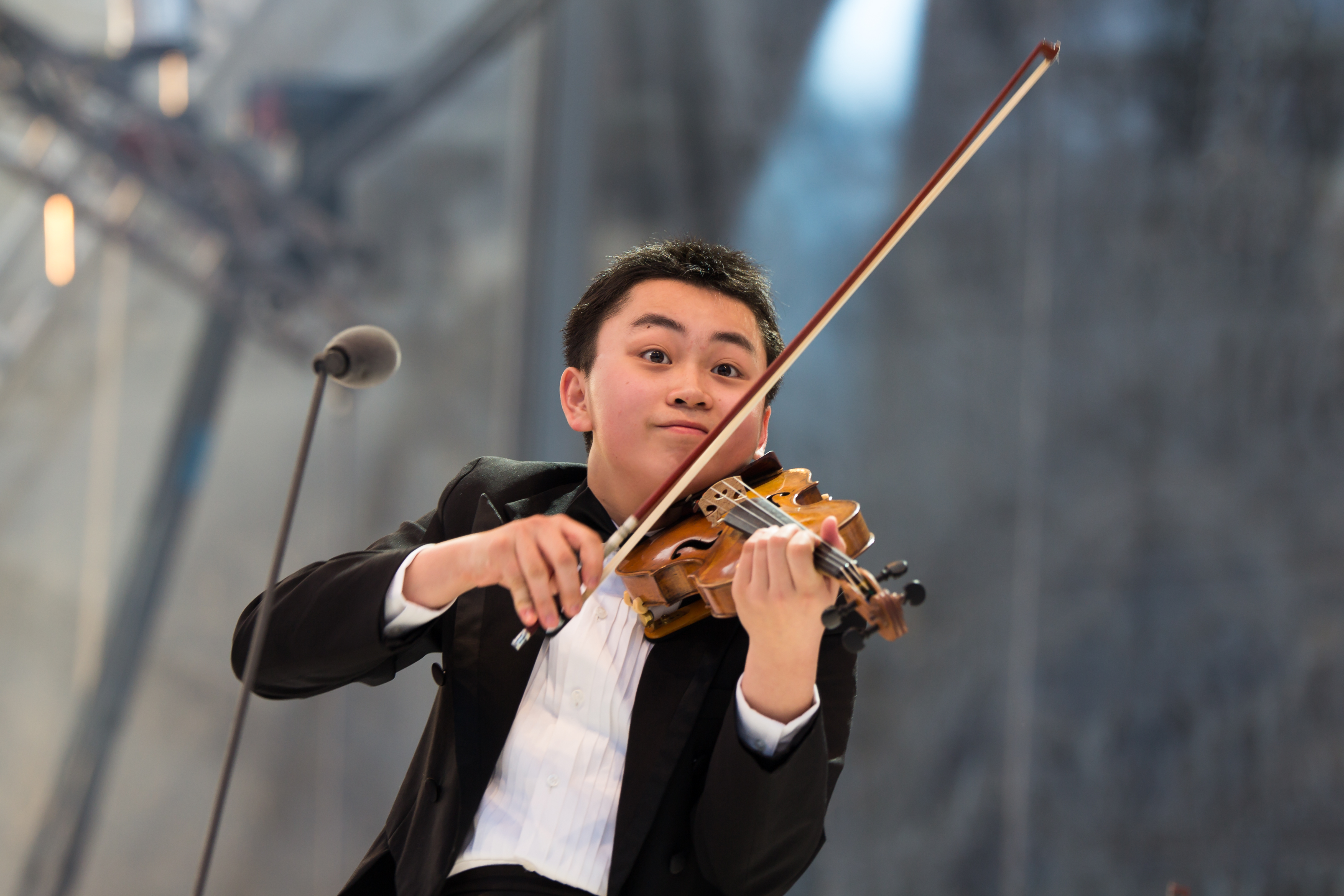 Ziyu He at final rehearsal for Eurovision Young Musicians 2014